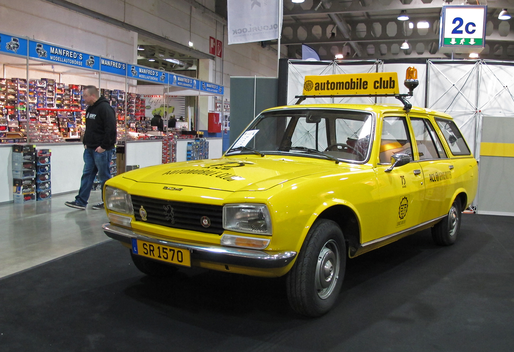 Peugeot 504 of the Automobile Club Luxembourg on the Autojumble 2014